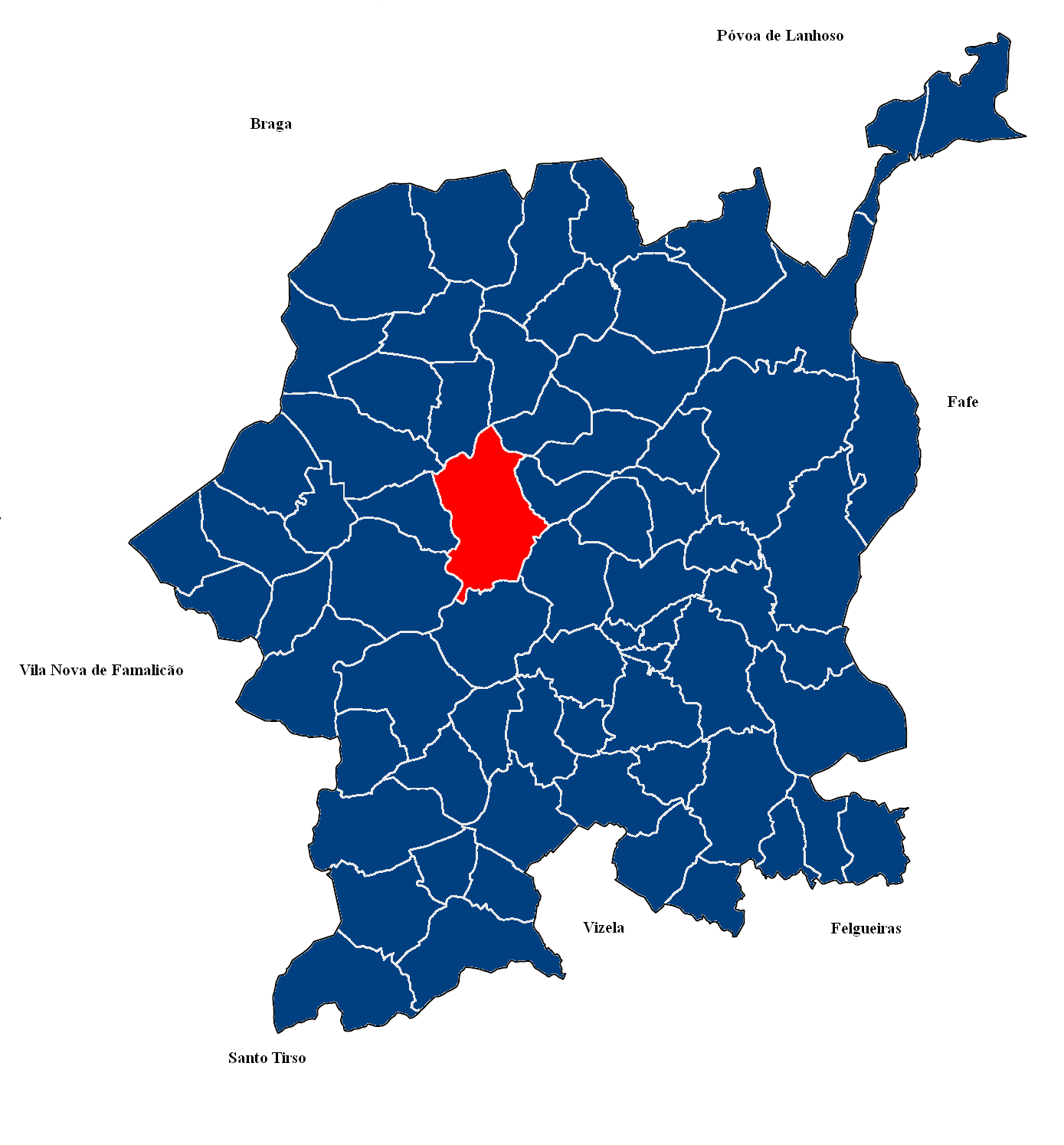 Map of Ponte parish, Guimarães Municipality, Portugal